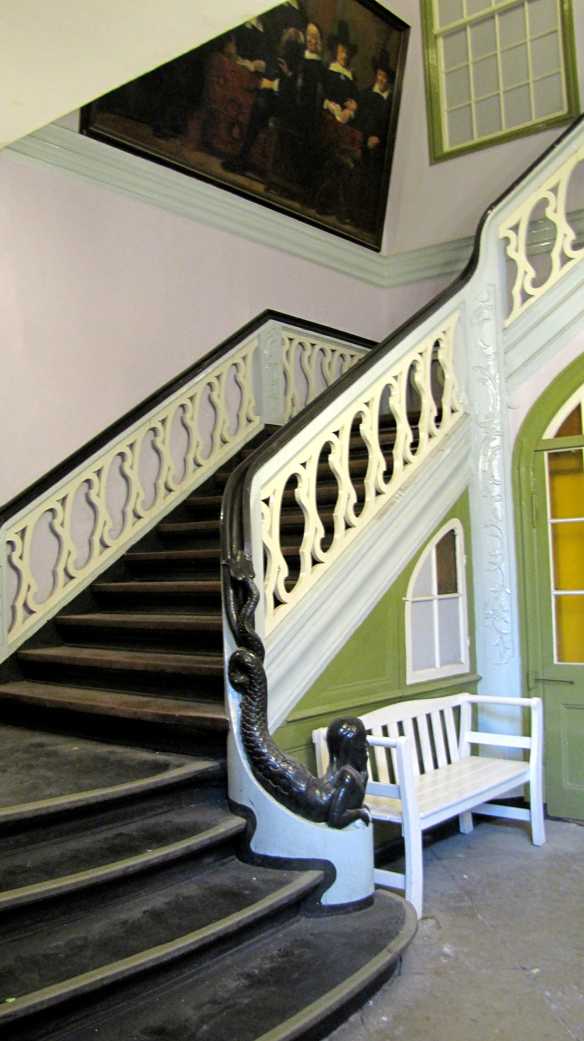 Staircase of Königstr. 81, Lübeck